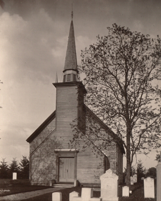 The Mohawk Church. Built for King George in 1785. Brantford, Ontario, Canada.